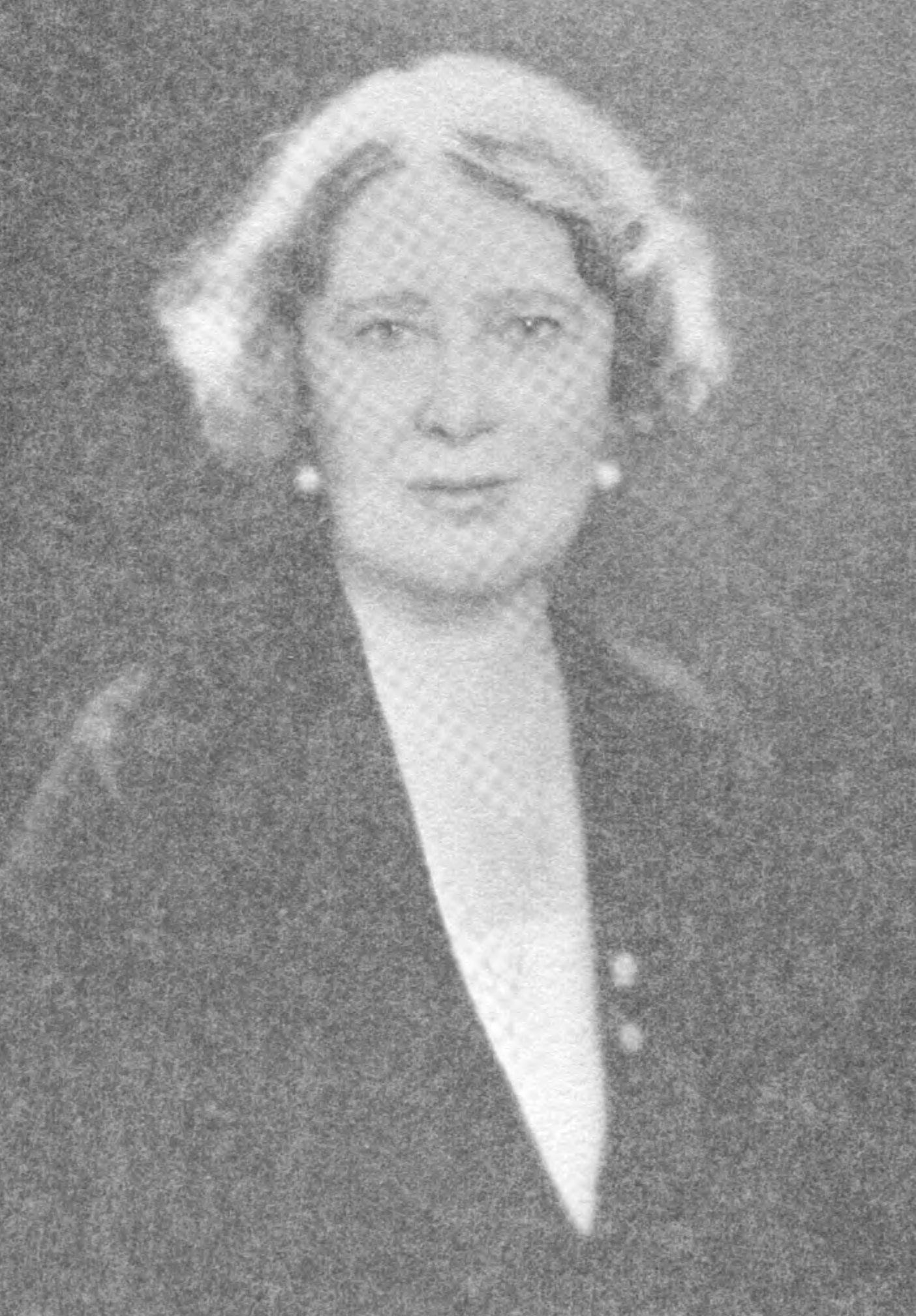 Head and shoulders photograph of Georgia Philipps Bullock wearing a jacket and earrings